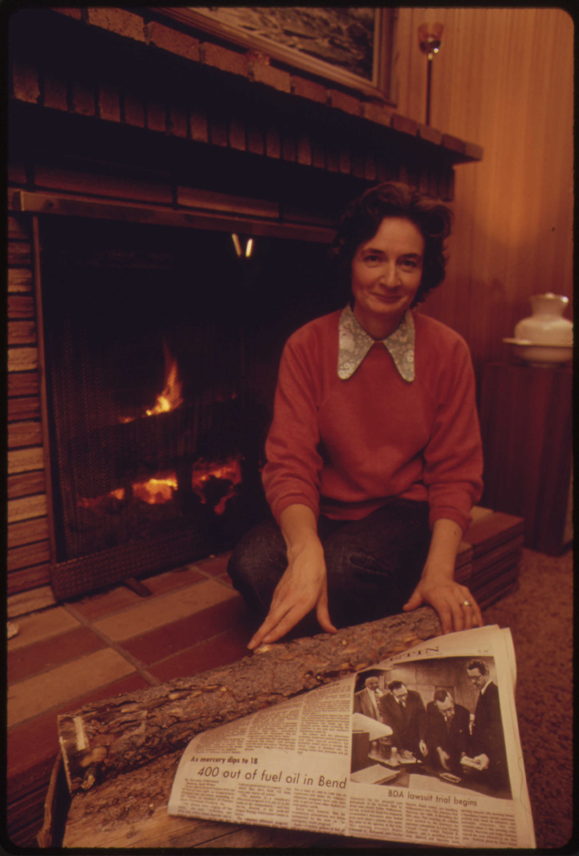 Original Caption: Women Uses Her Home Fireplace for Heat. A Newspaper Headline before Her Tells of the Community's Lack of Heating Oil 10/1973 U.S. National Archives’ Local Identifier: 412-DA-12941 Photographer: Falconer, David Subjects: Bend (Deschutes county, Oregon, United States) inhabited place Environmental Protection Agency Project DOCUMERICA Persistent URL: Repository: Still Picture Records Section, Special Media Archives Services Division (NWCS-S), National Archives at College Park, 8601 Adelphi Road, College Park, MD, 20740-6001. For information about ordering reproductions of photographs held by the Still Picture Unit, visit: Reproductions may be ordered via an independent vendor. NARA maintains a list of vendors at Access Restrictions: Unrestricted Use Restrictions: Unrestricted